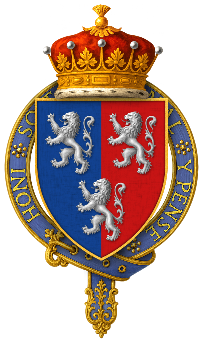 Shield of arms of Edward Herbert, 2nd Earl of Powis, KG